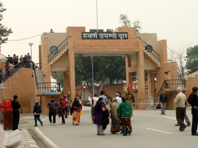 Wagah Border Post in the Indo-Pakistan international border crossing near Amiritsar, India. Photo taken from the Indian side of the border.